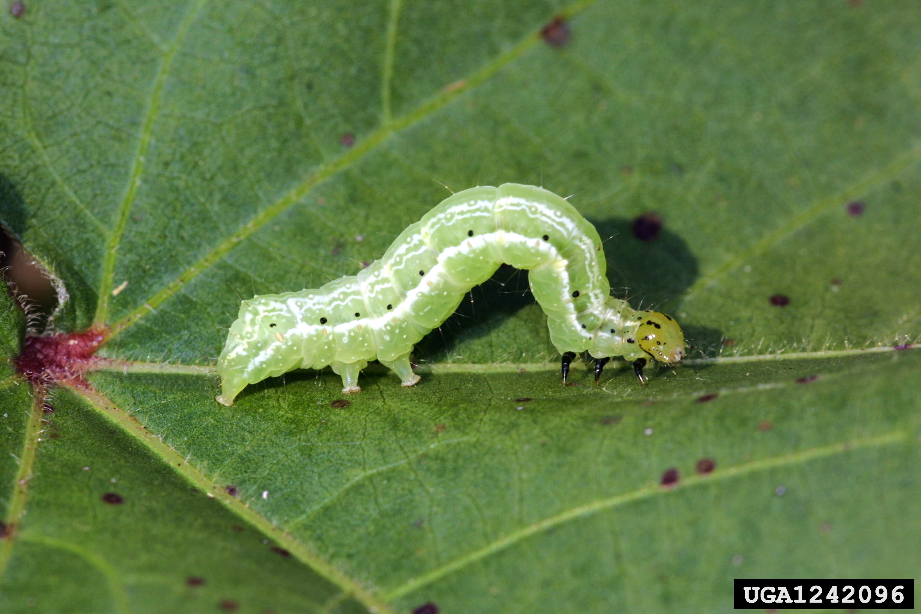 Chrysodeixis includens (Walker, [1858]); syn.: Pseudoplusia includens larva